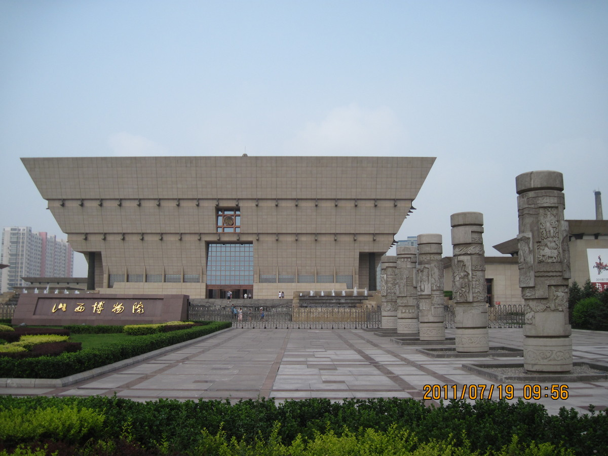 The Shanxi Museum located on the west bank of Fen River in downtown Taiyuan as of 2011.中文（中国大陆）: 山西博物院，位于太原市区汾河西岸。2011年。